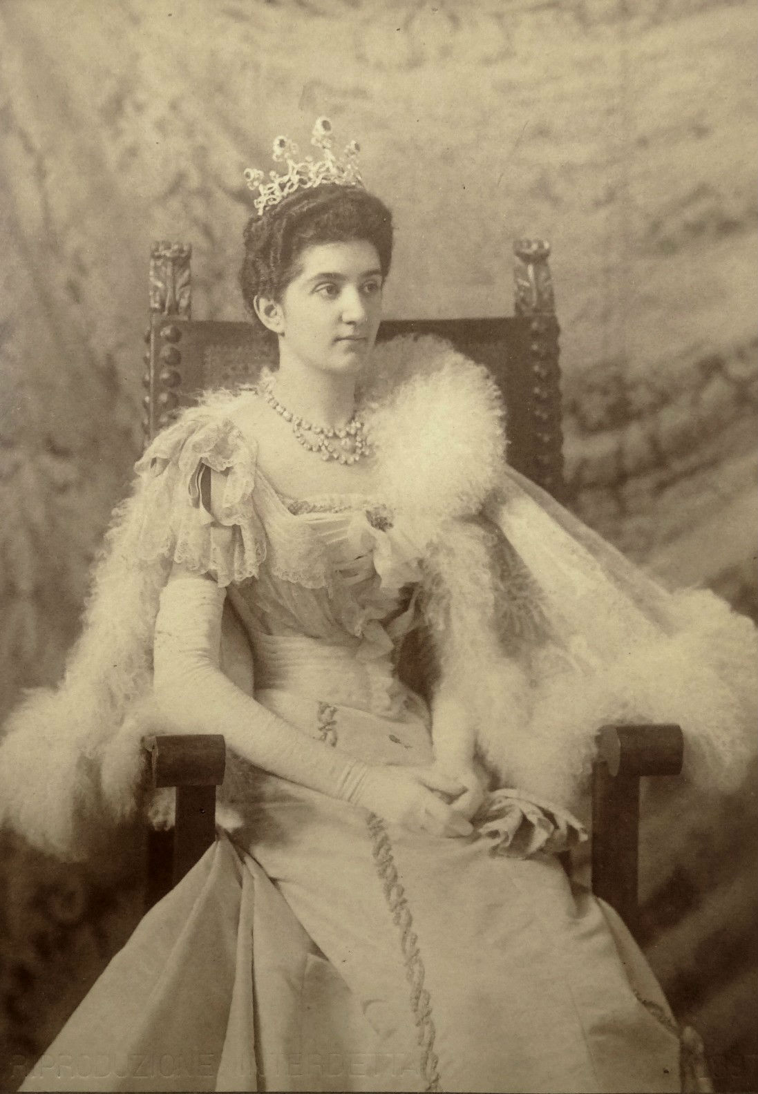 Carlo Brogi (1850-1925) - Princess Elena of Montenegro (1873-1952), wife to Victor Emmanuel III of Italy. Around 1897.